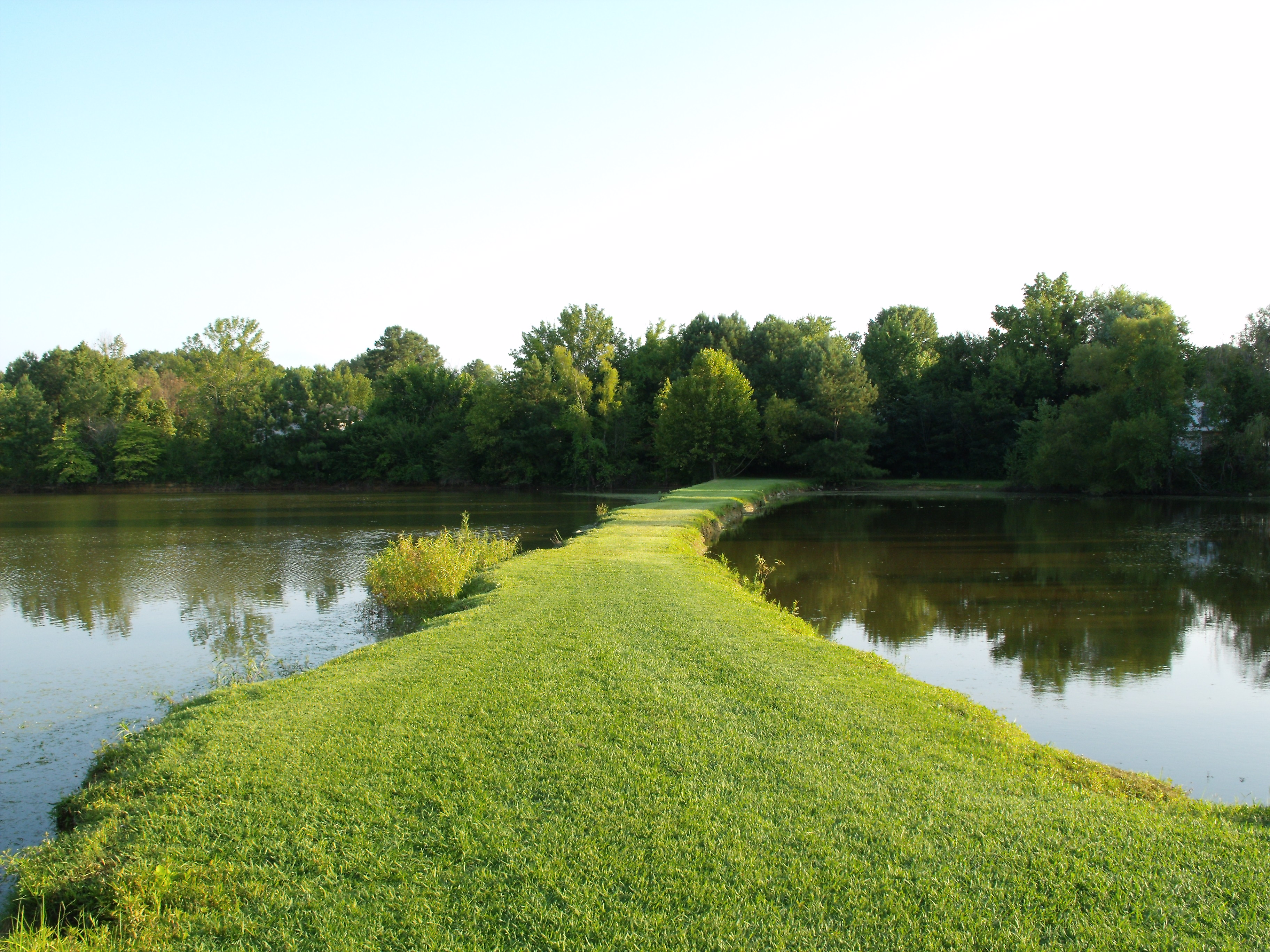 View of the pond's land bridge, Boyd-Buchanan School, Chattanooga, Tennessee.